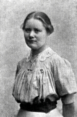 Maria Jacobsen (November 6, 1882 - April 6, 1960) was a Danish missionary and a key witness to the Armenian Genocide. Jacobsen wrote the Diaries of a Danish Missionary: Harpoot, 1907-1919, which according to Armenian Genocide scholar Ara Sarafian, is a "documentation of the utmost significance" for research of the Armenian Genocide. Maria Jacobsen watched the persecution of Armenians from close quarters and tried to save as many Armenian women and children as possible. She also pleaded with the Ottoman authorities, provided clandestine relief, and recorded what she witnessed.